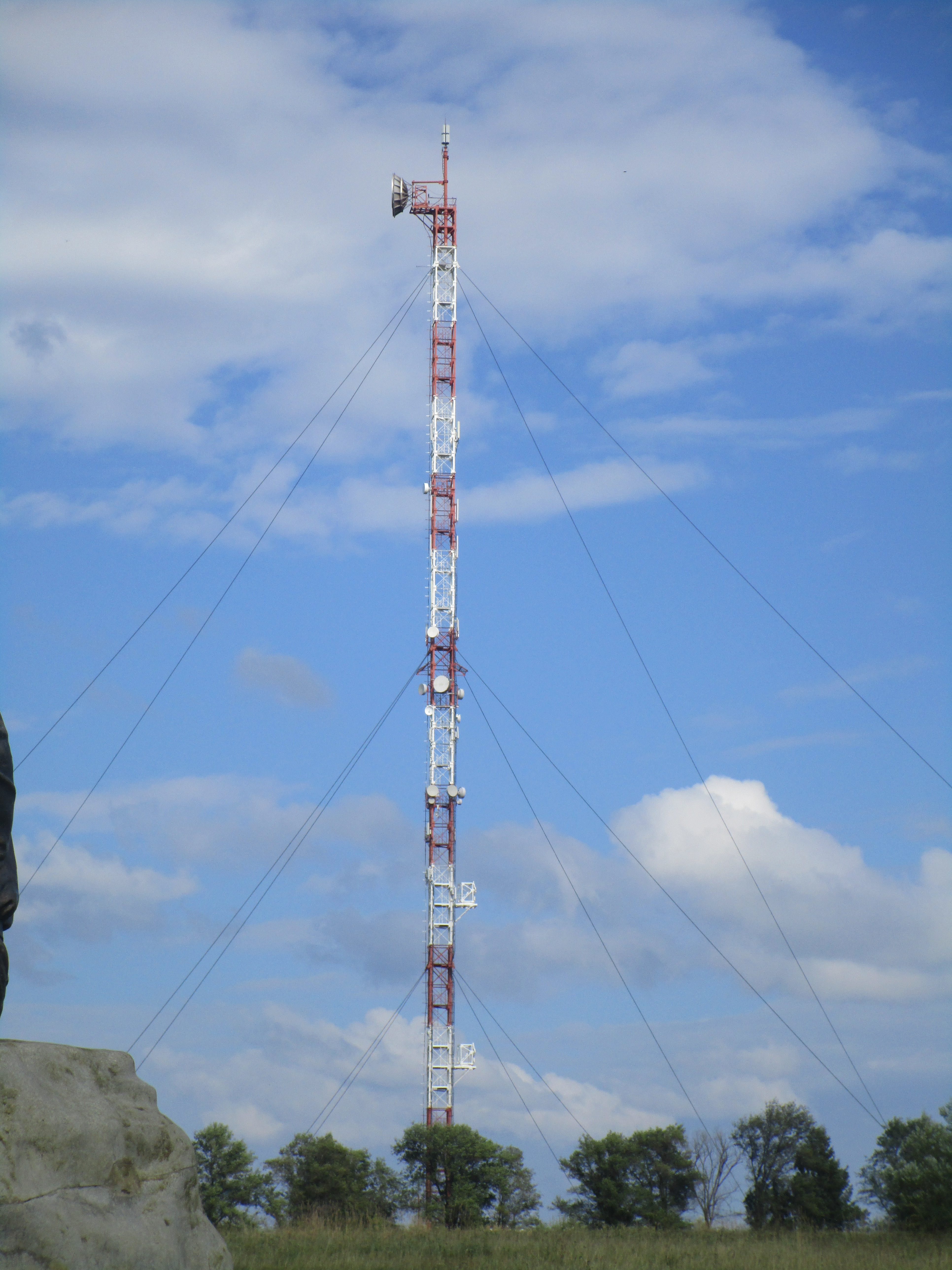 TV tower in Srostki, Altayskiy krai, Russia